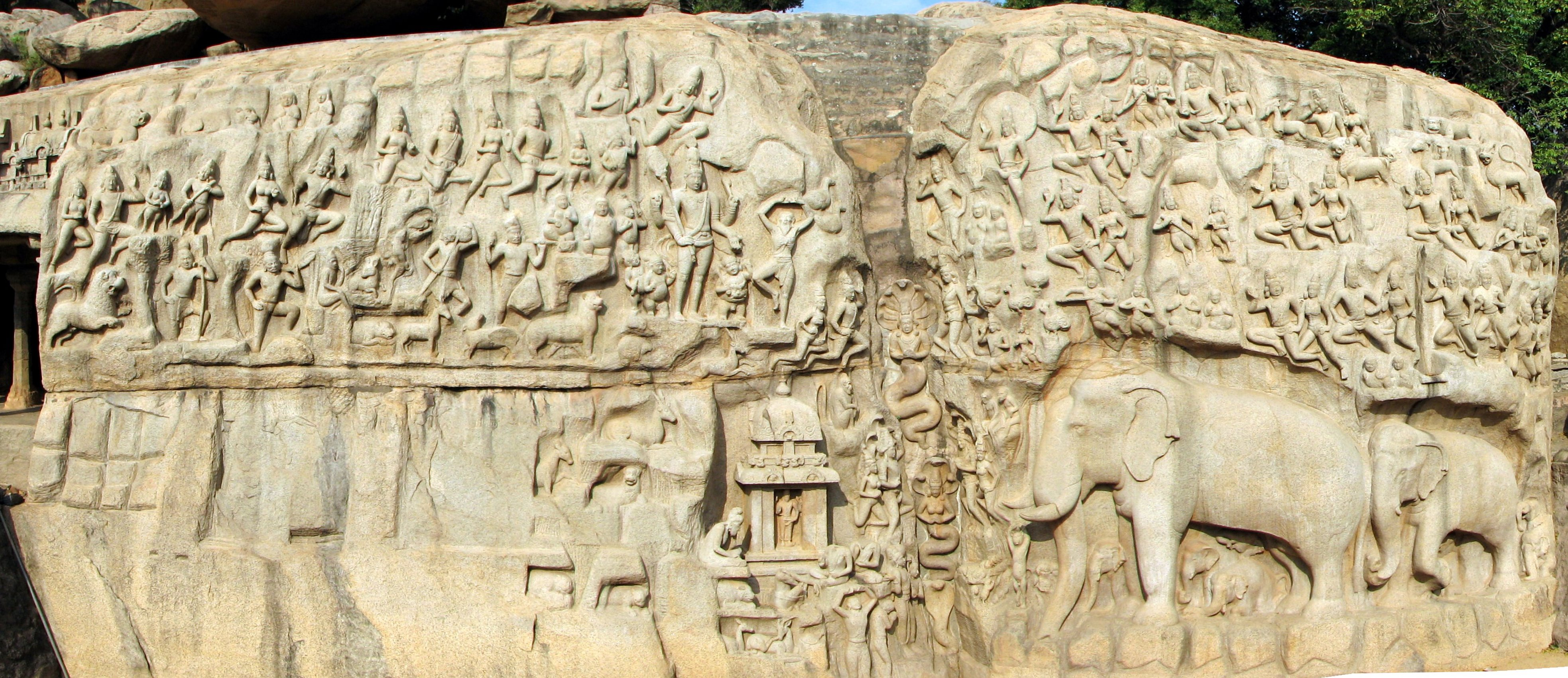 Bas-relief representing the Descent of the Ganges or the Arjuna's Penance, Mahabalipuram, India